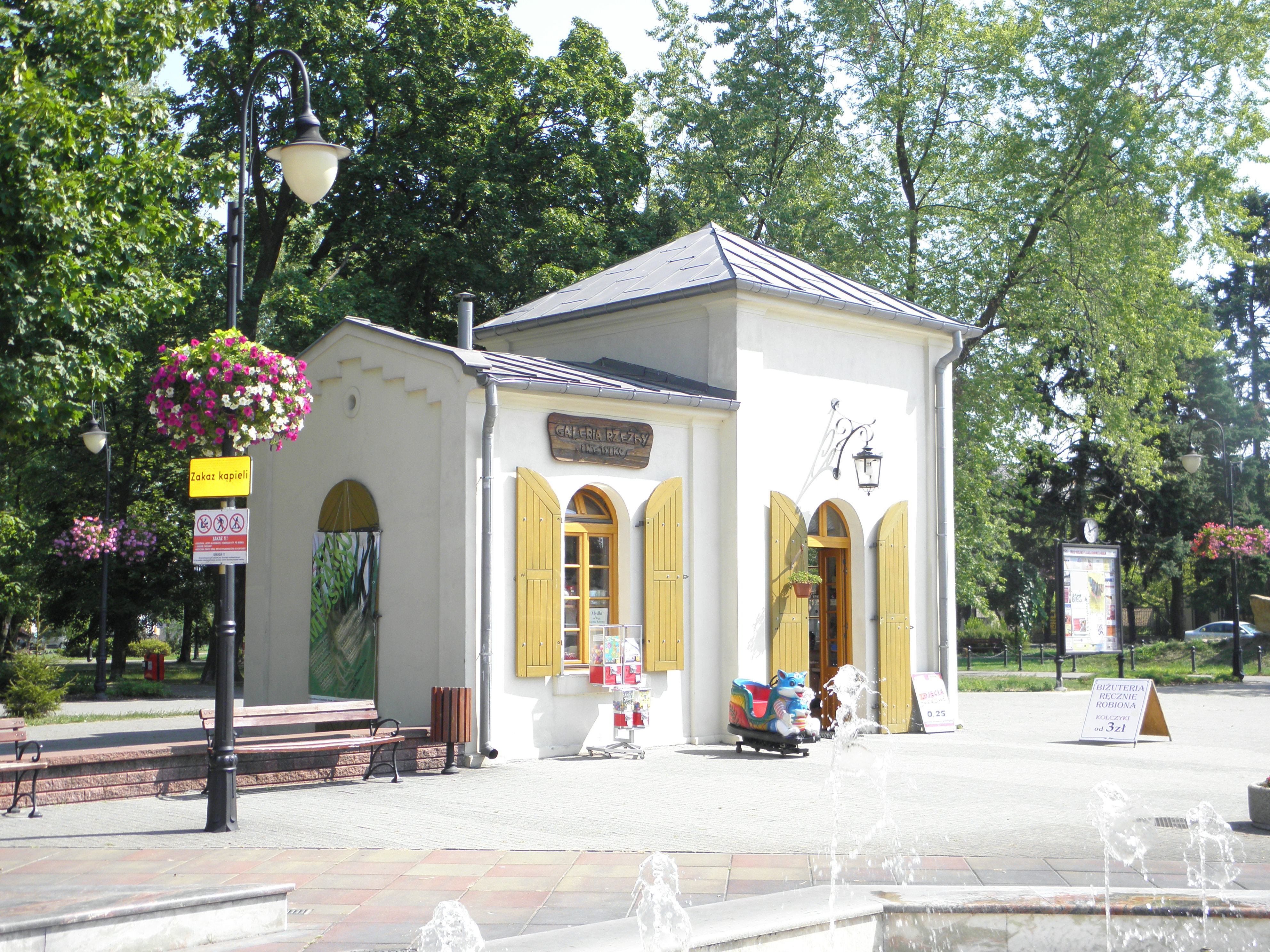 Budynek Wagi Miejskiej w Aleksandrowie Łódzkim - Weigh House in Aleksandrów Łódzki_2